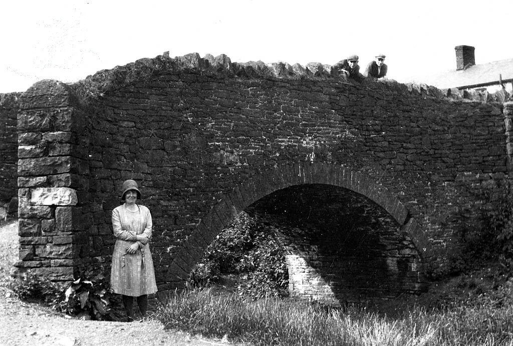 Aberdare Canal, Cwbach, Wales